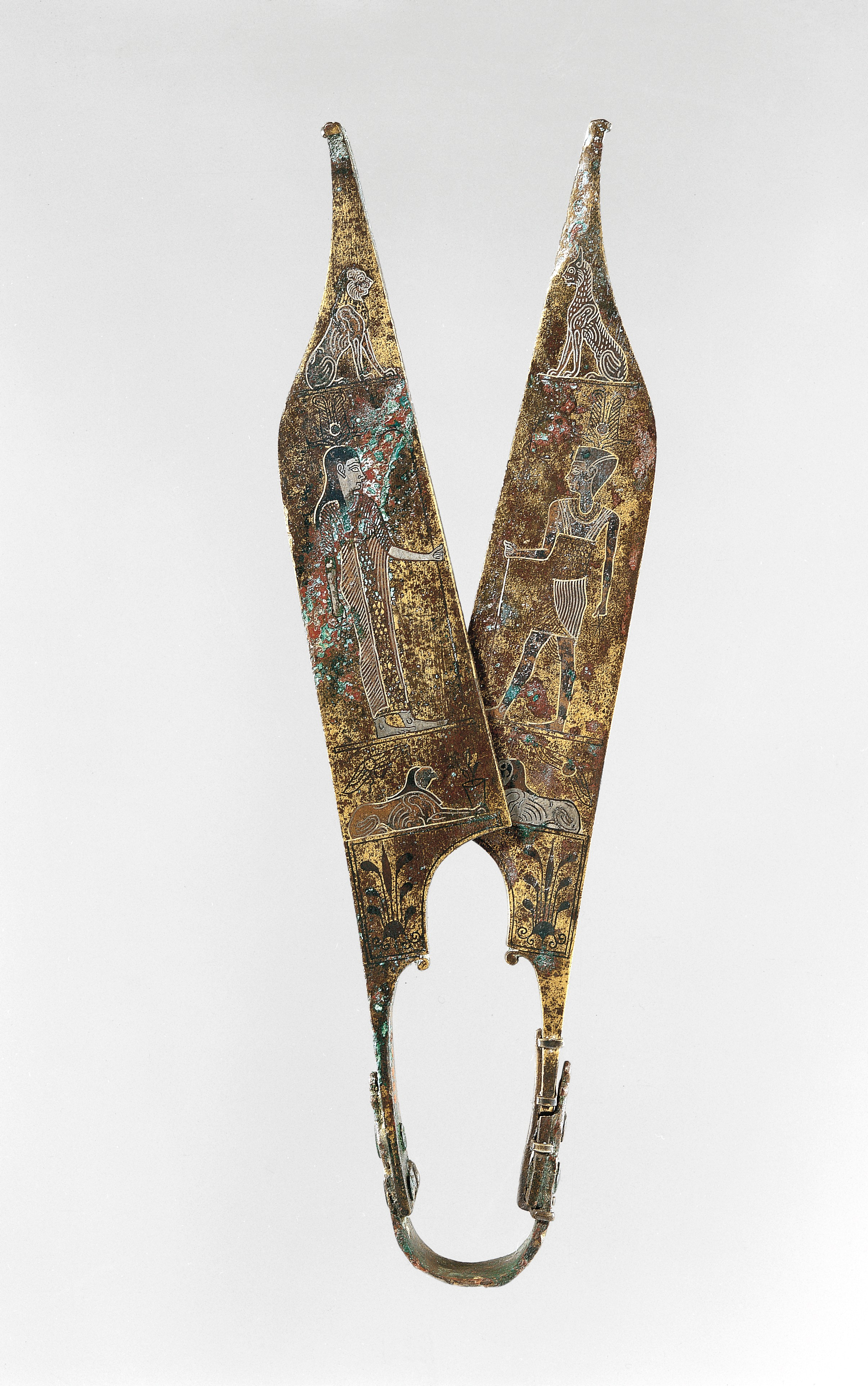 Scissors